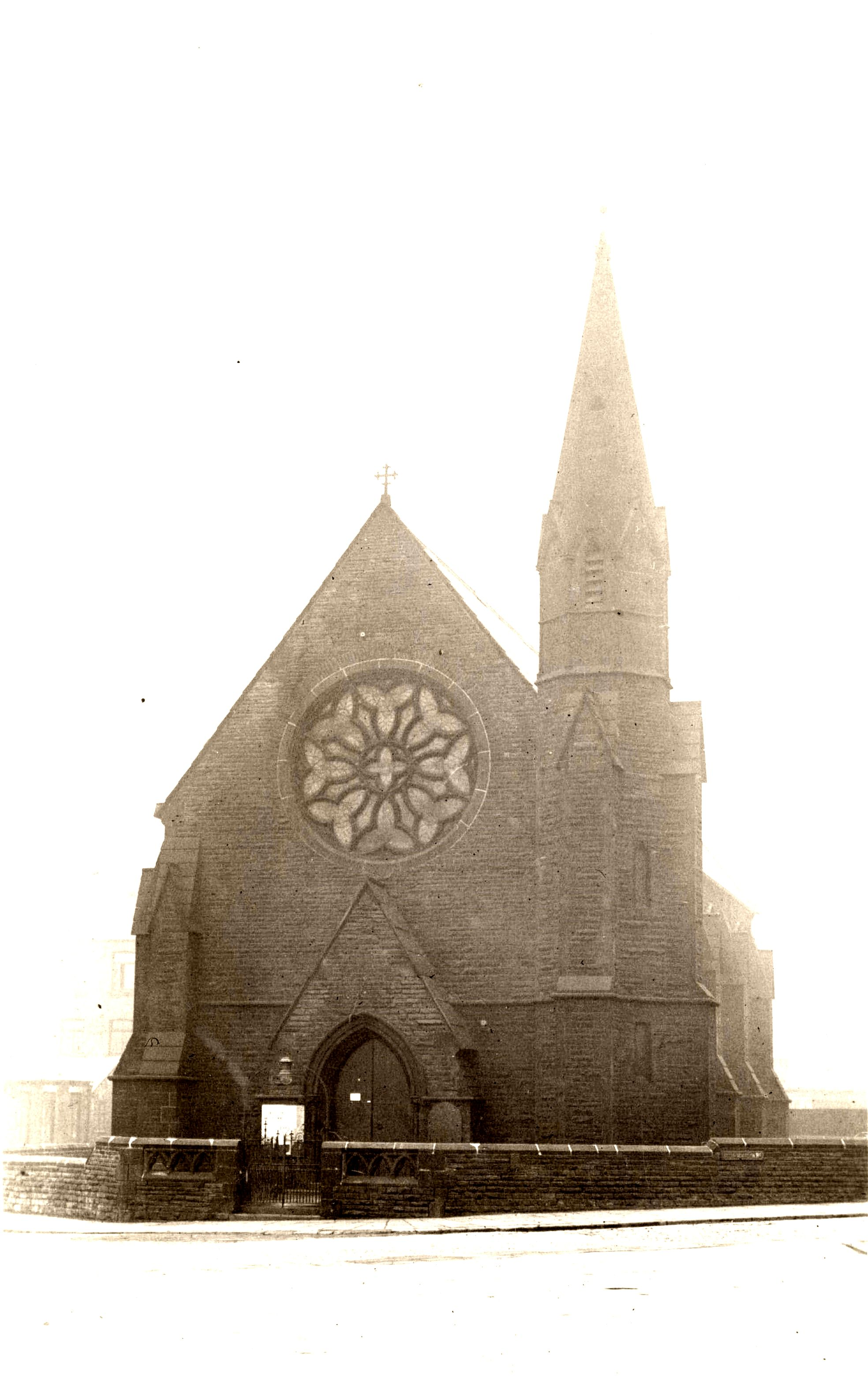 The former St Stephen's Church, Nippet Lane, Burmantofts, Leeds, West Yorkshire, England. It was designed by John Dobson, consecrated in 1854 and demolished in 1939. Robert Mawer executed the stone carving on this building.